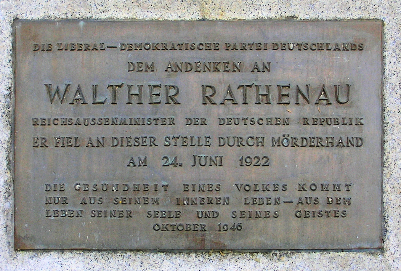 Memorial plaque, Walther Rathenau, Koenigsallee 16, Berlin-Grunewald, Germany